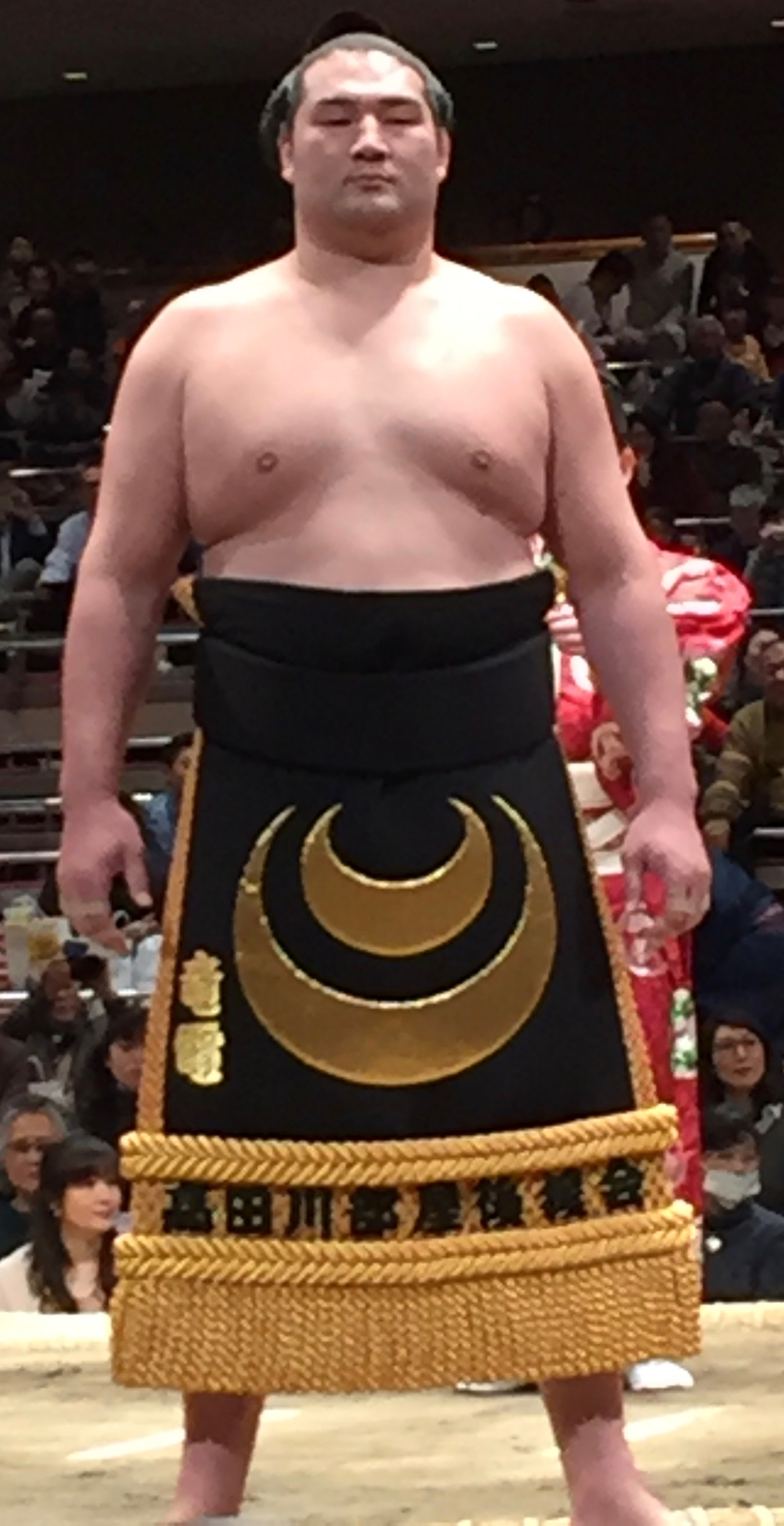 taken at Jan 2017